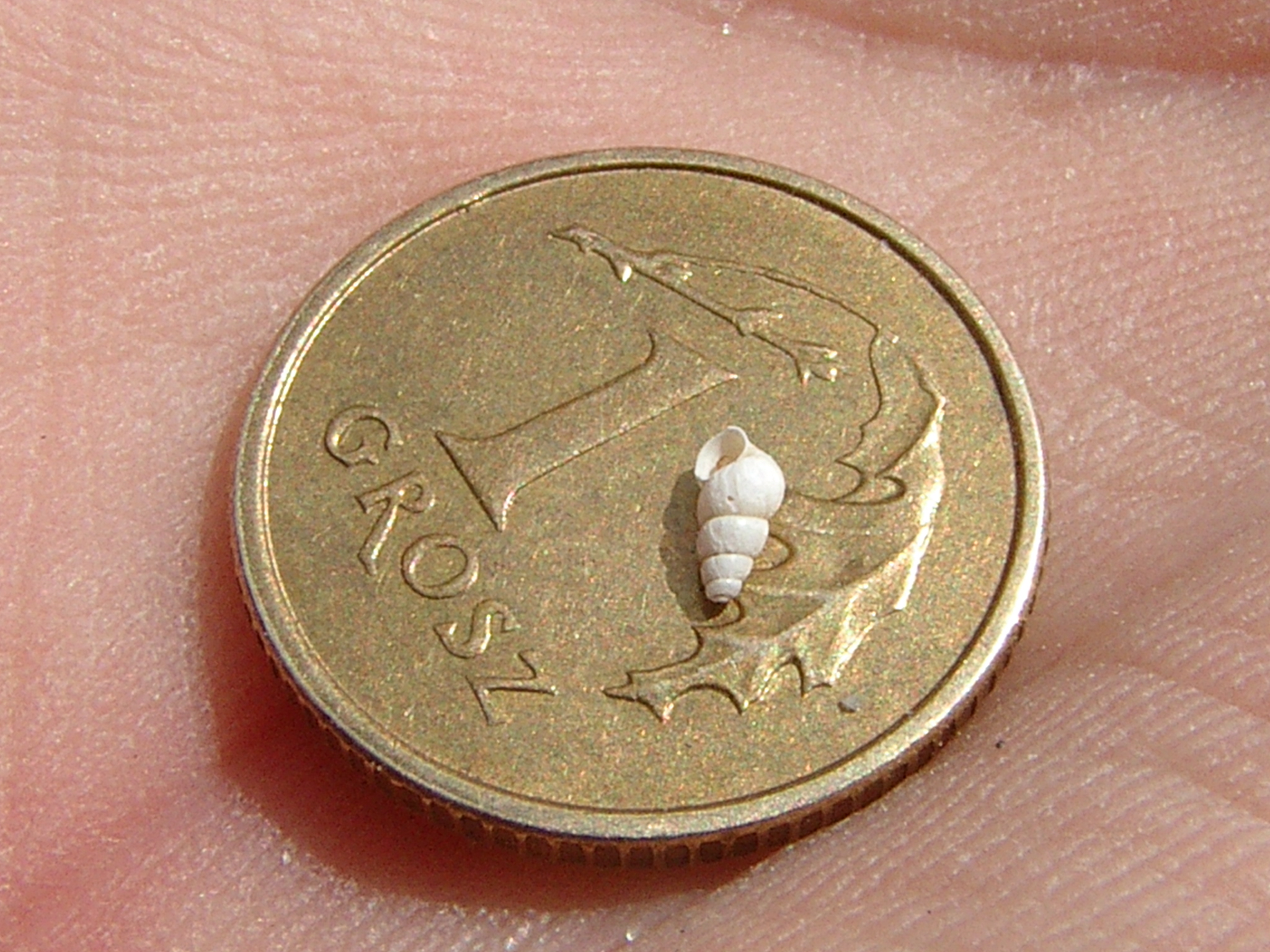 A small gastropod shell on a coin.